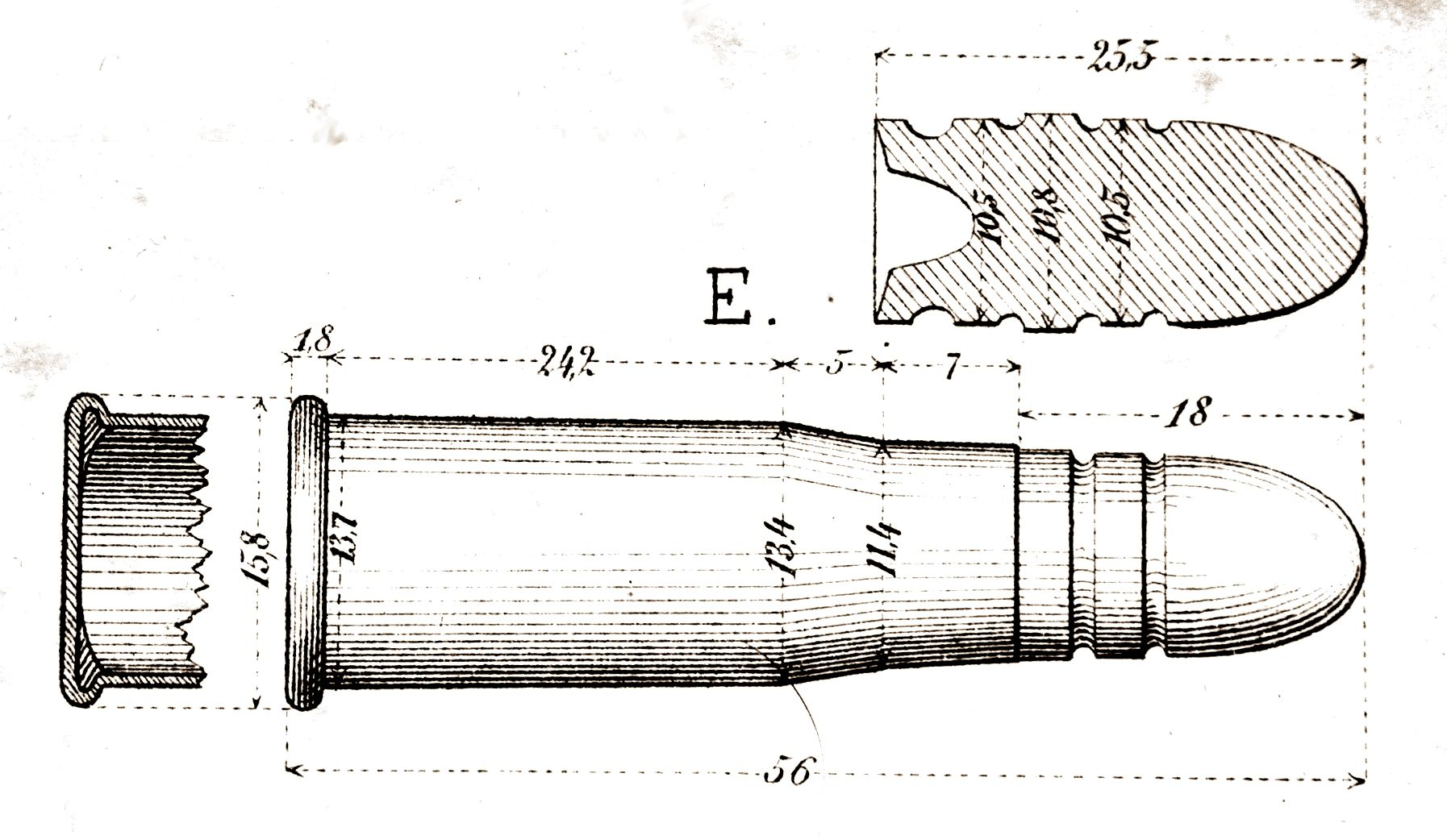 Vetterli-cartridge 1869